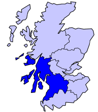 Simple map of the region Strathclyde in Scotland